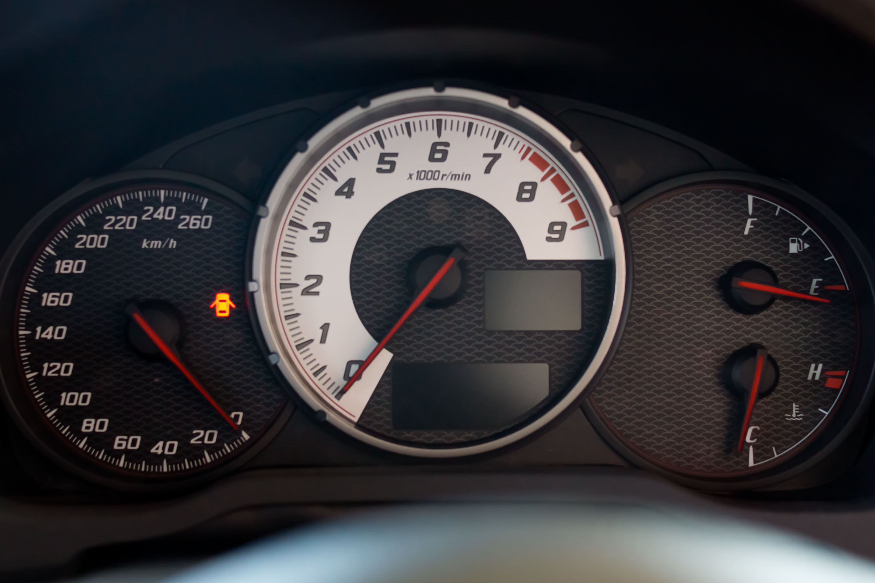 Instrument Panel of Toyota 86 (as known as Toyota FT-86, Toyota GT86, Sion FR-S). GT grade.